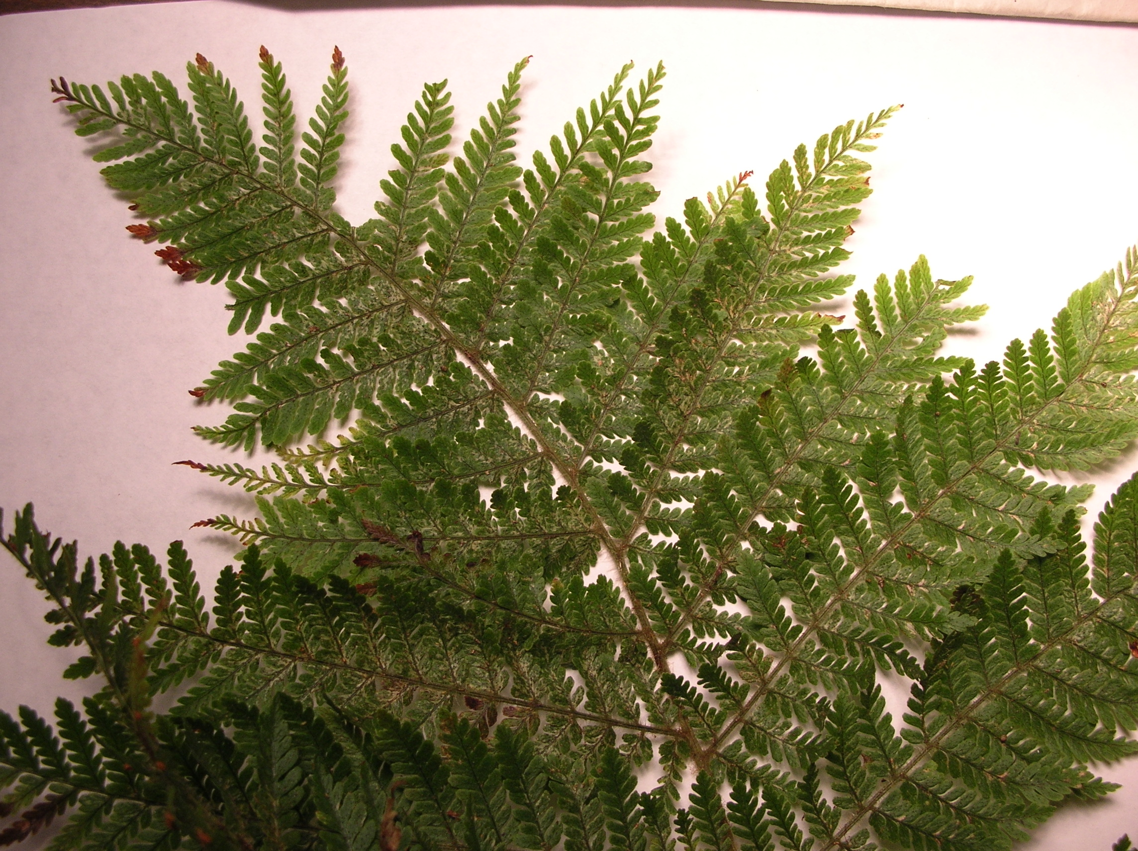 Nothoperanema rubiginosa (frond). Location: Maui, Makawao Forest Reserve